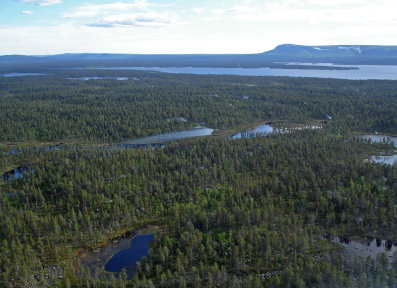 Vue of Tjeggelvas nature reserve, Norrbotten county, Sweden, with lake Tjeggelvas in the background